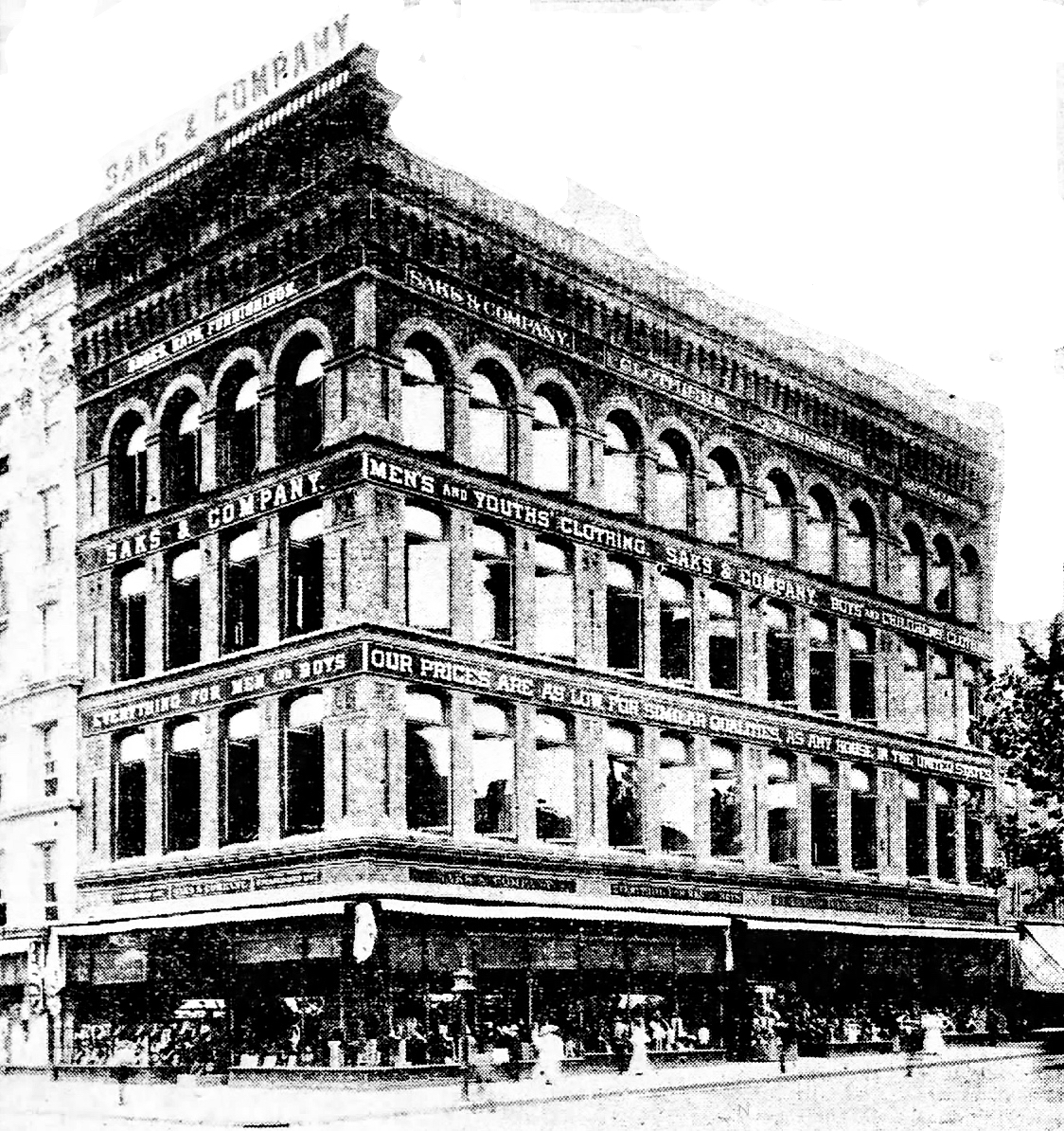 Saks and Co., Washington D.C.